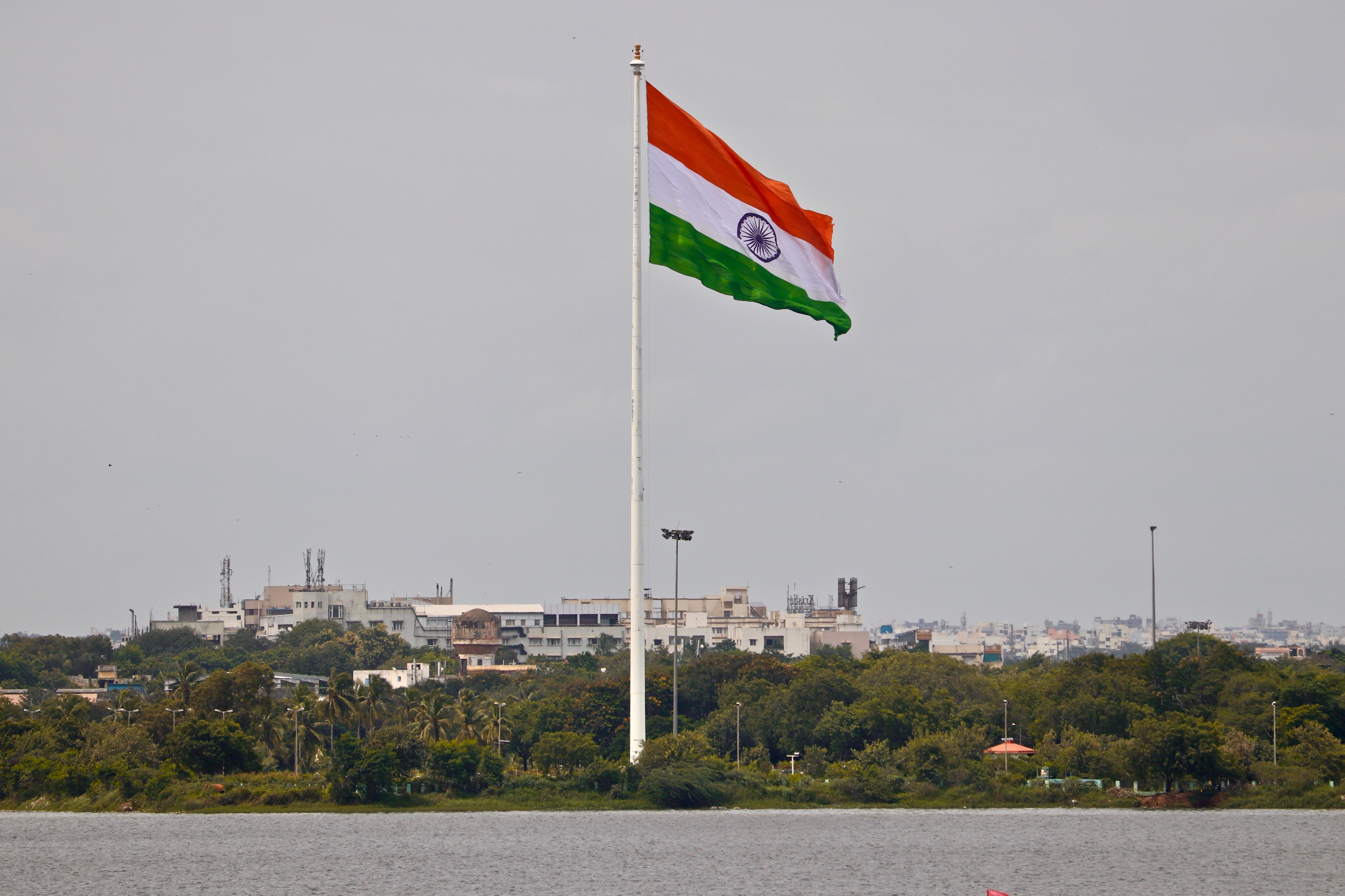 Third largest Indian flag located in Tankbund, Hyderabad